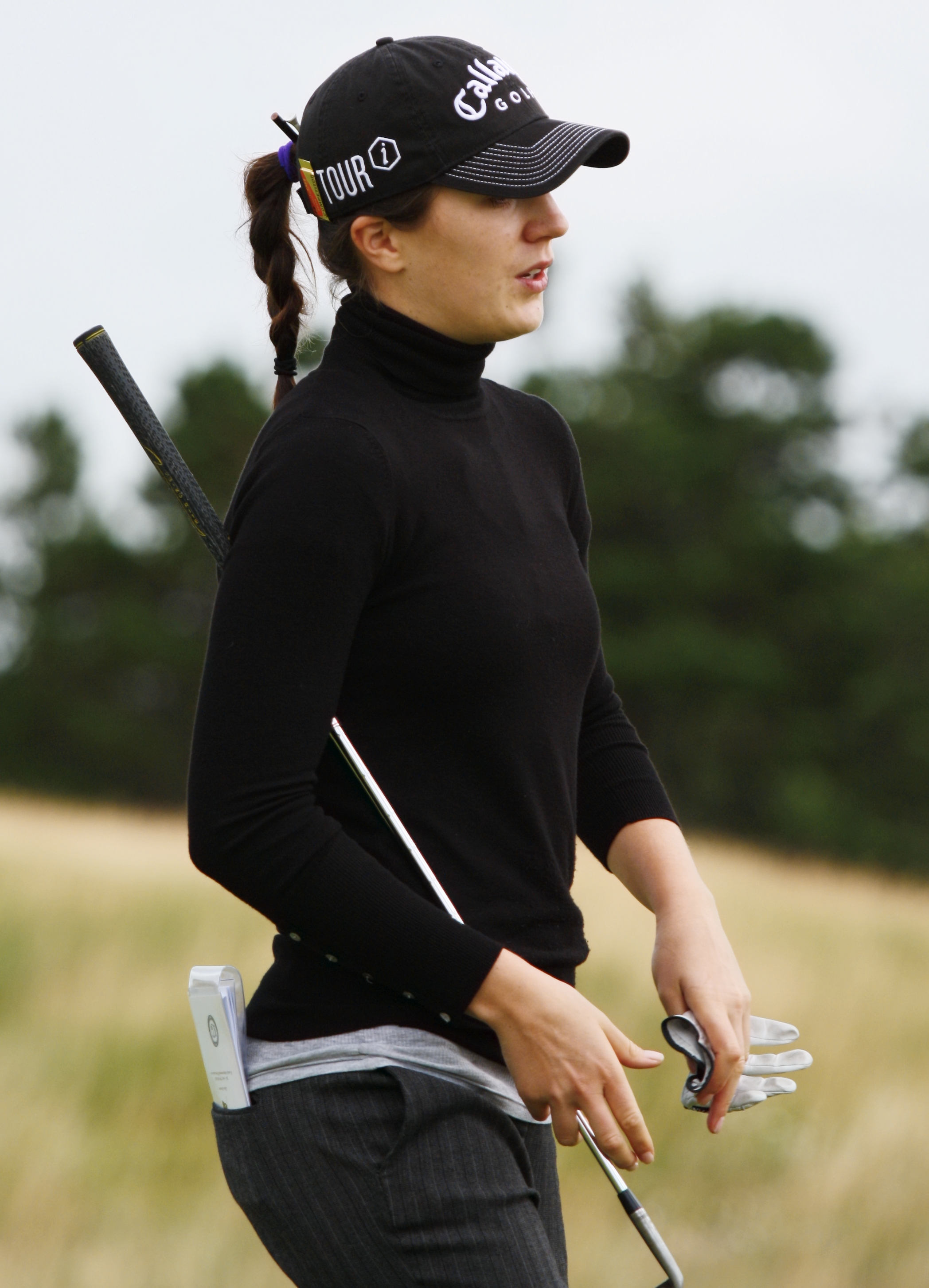 LYTHAM ST ANNES, UNITED KINGDOM - JULY 27: Sandra Gal of Germany during first practice round before 2009 Ricoh Women's British Open held at Royal Lytham & St Annes on July 27, 2009 in Lytham St Annes, England. (Photo by Wojciech Migda)